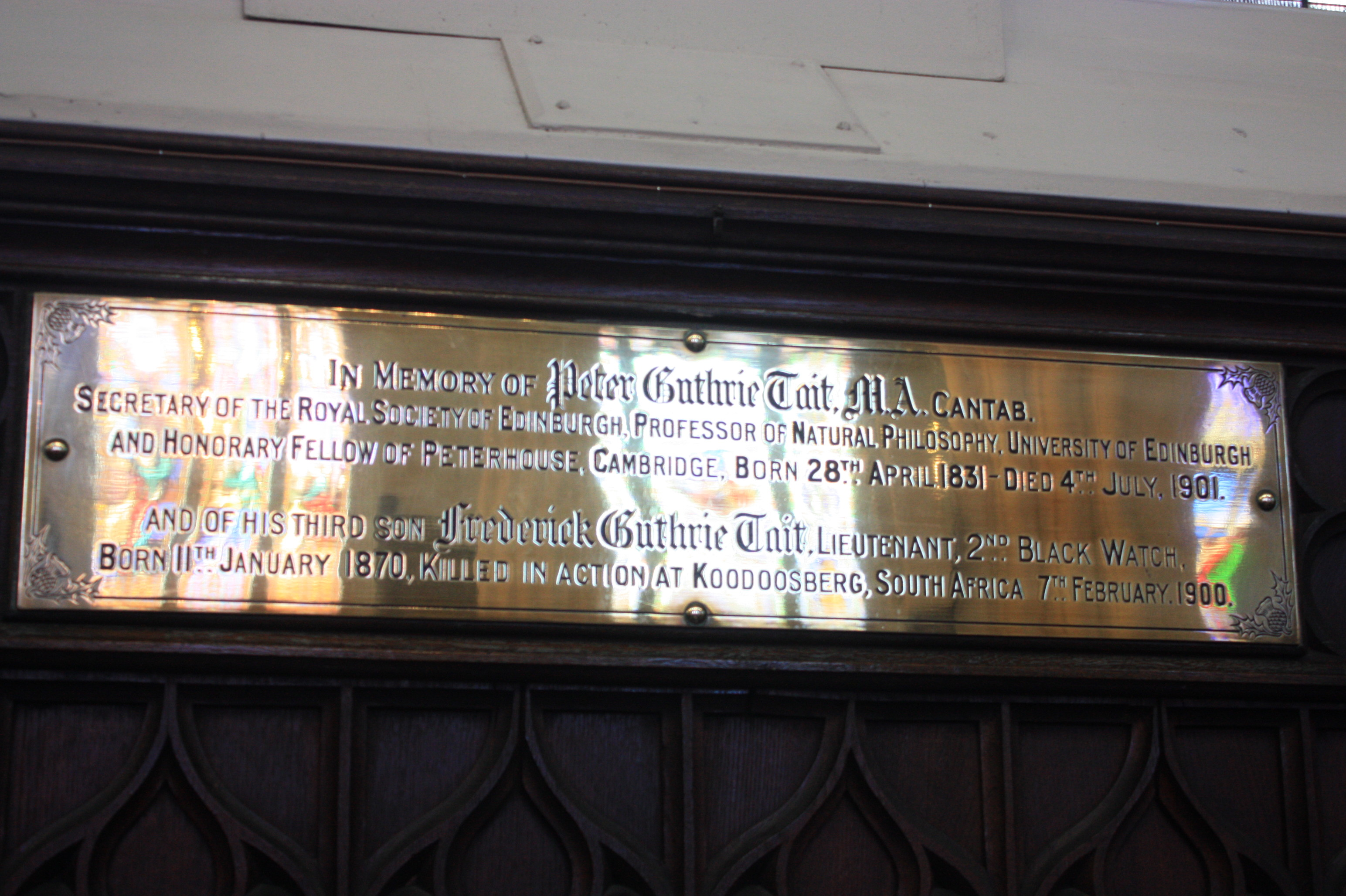 Memorial plaque to Peter Guthrie Tait, St Johns Episcopal Church, Edinburgh